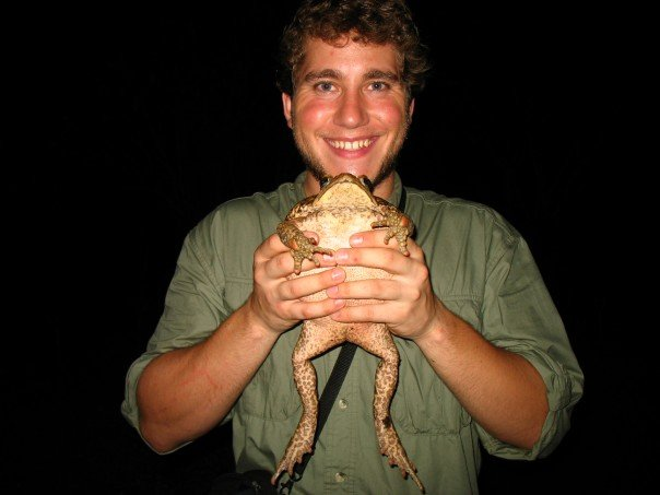 Right after I licked the toad. This is the species which you can lick to get high... although it may also stop your heart.